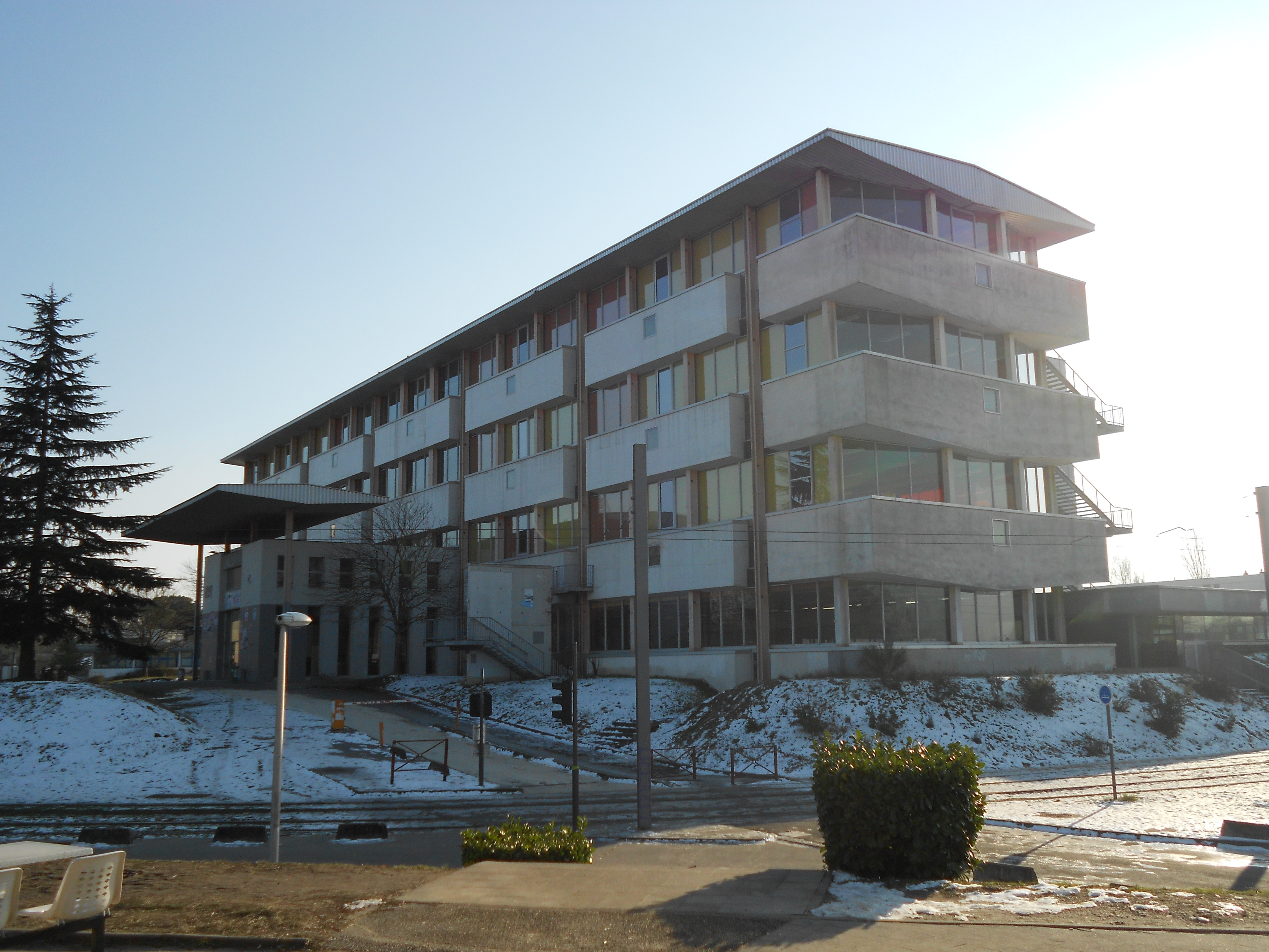 The library of humanities and social sciences of the Michel de Montaigne University (Bordeaux 3) in February 2012.